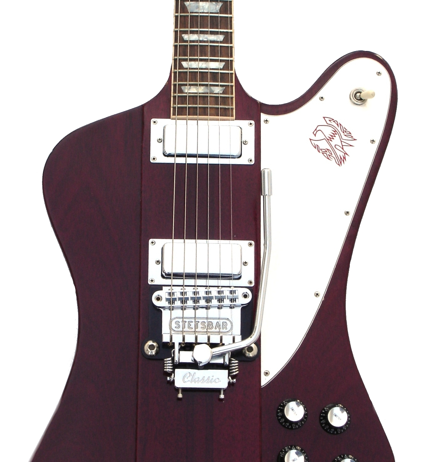 Picture of a Gibson Firebird Guitar with Stetsbar fitted